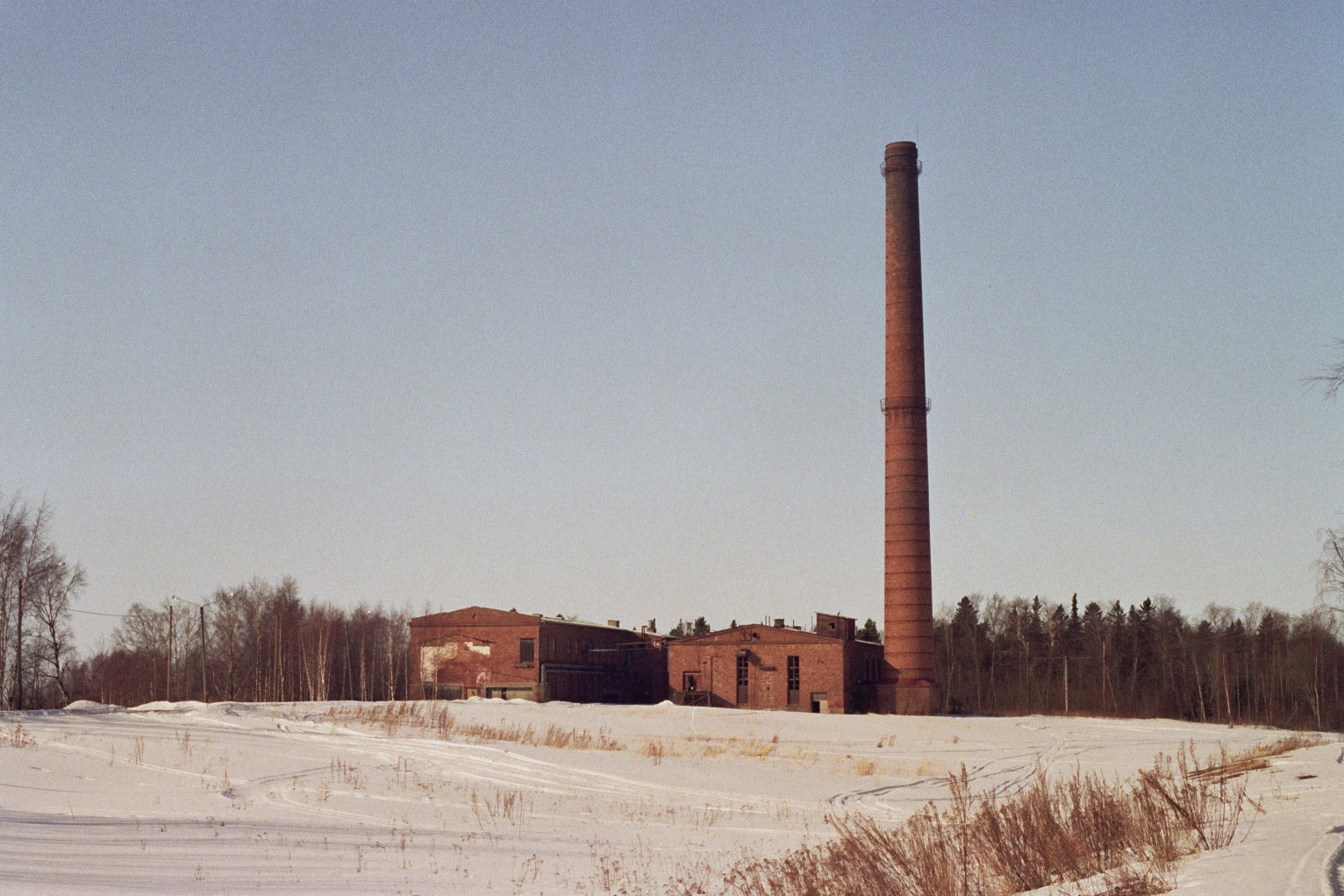 The former Martinniemi groundwood mill (later a planing mill) with its power station in the Haukipudas municipality of Finland. The buildings were constructed in the 1920s.